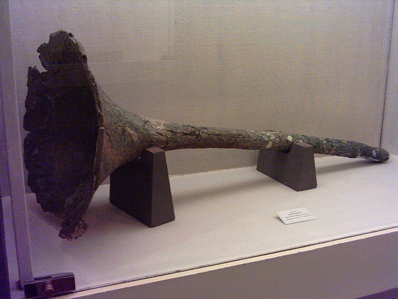 KARNA, one of the ancient Persian musical instruments. This Karna is now kept at Persepolis Museum. The instrument which shows the importance of epic and military music in ancient Persia (Iran) has been made in around 500 BC. Photo by Payam Jahangiri / PDN.